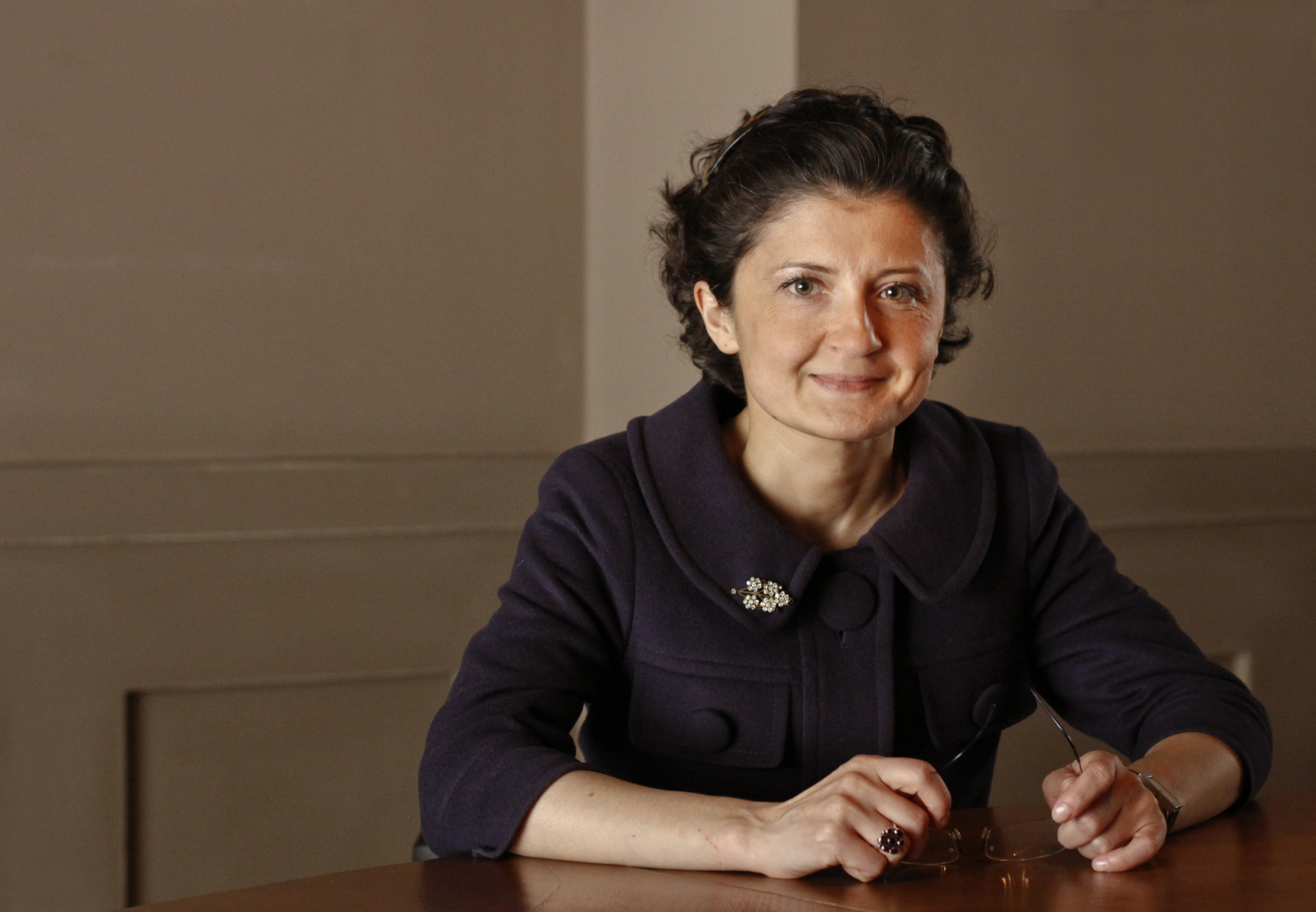 The Minister of Justice of Georgia